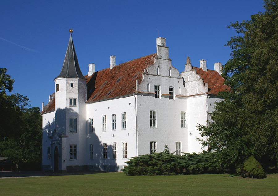 The mansion and estate Skovsbo near Rynkeby, Kerteminde Kommune, Denmark